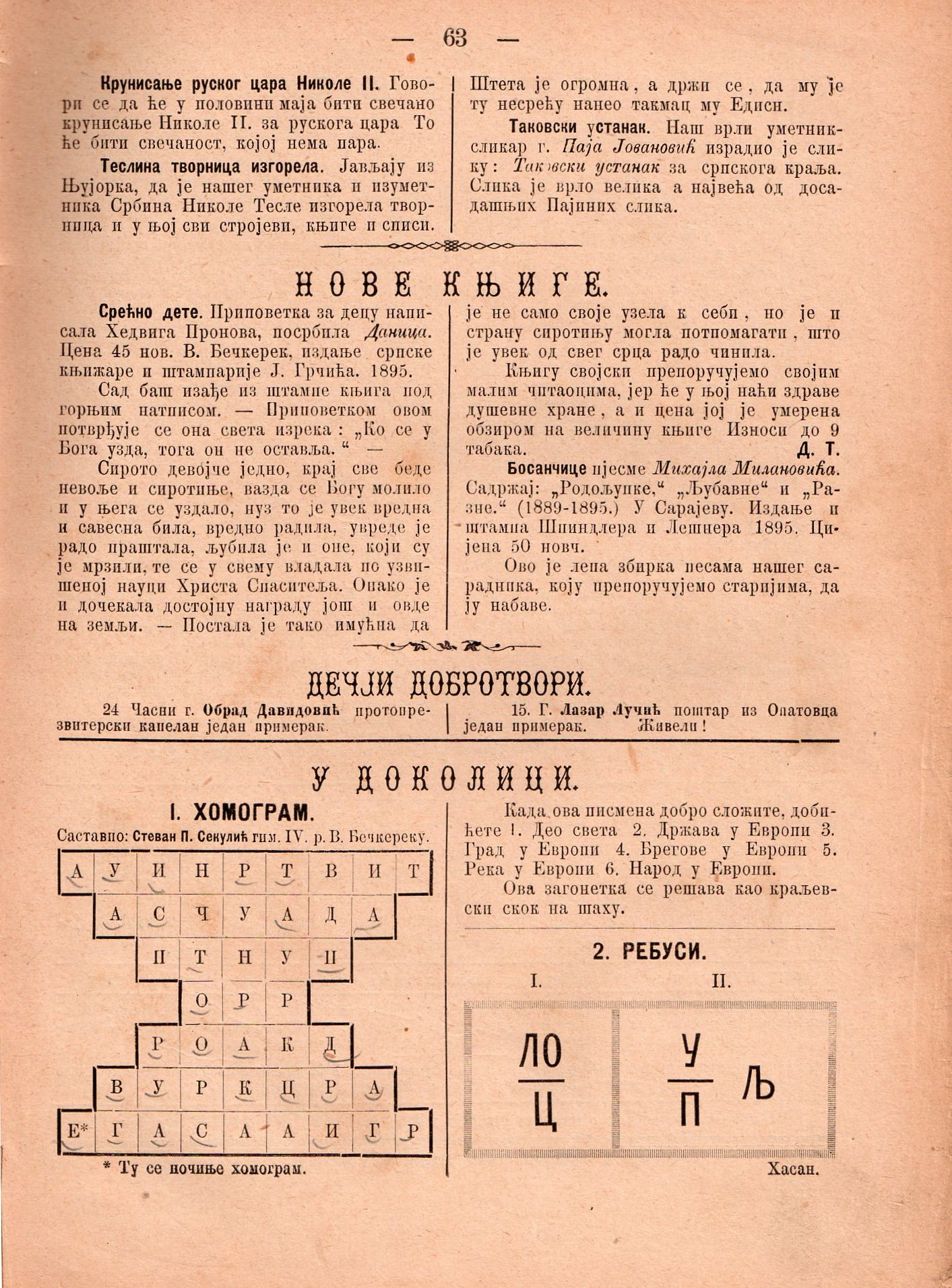 Spomenak, children magazine, number 2, 1895, page 63